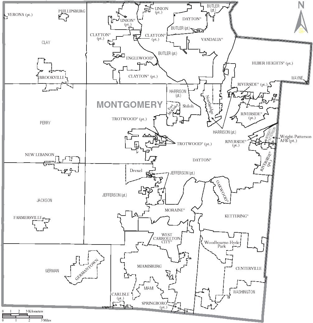 Map of Montgomery County, Ohio, United States with township and municipal boundaries